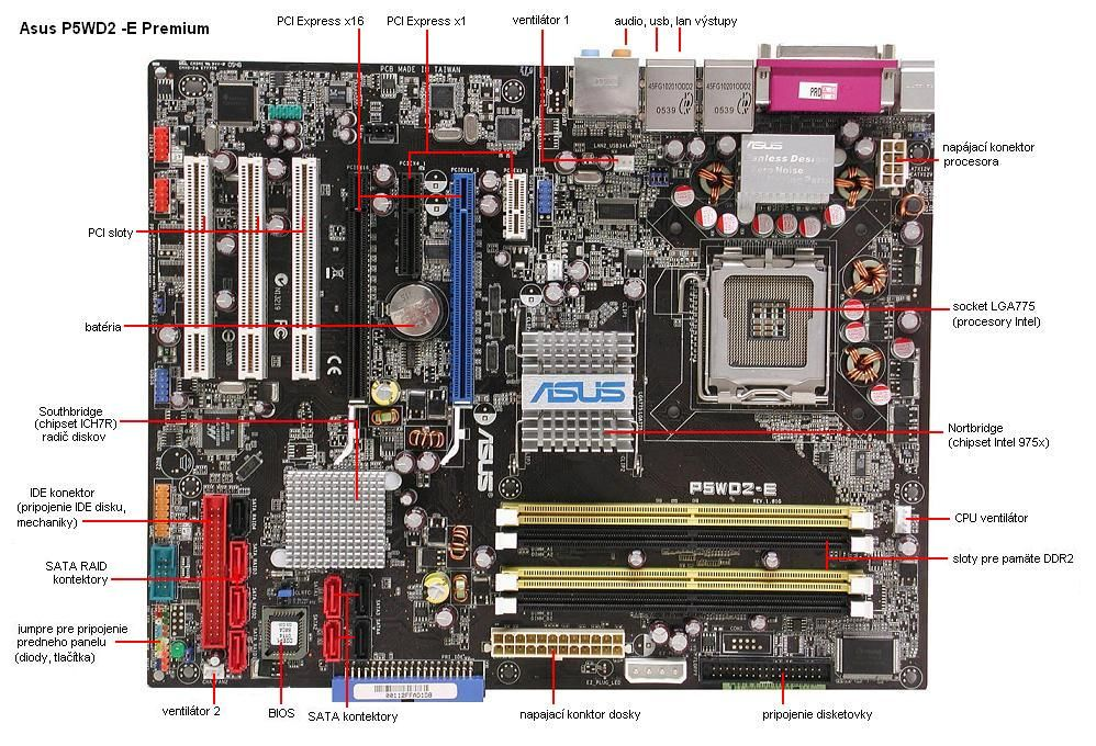 MainBoard Asus P5WD2-E Premium